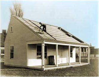 Flipped version of MIT Solar One House